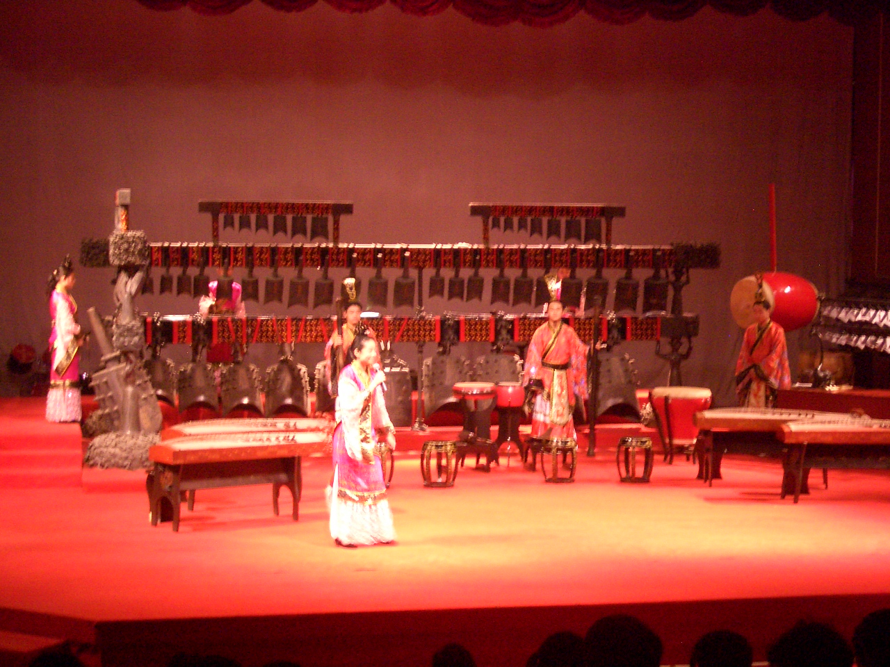 The bianzhong bell performance in Hubei Provincial Museum